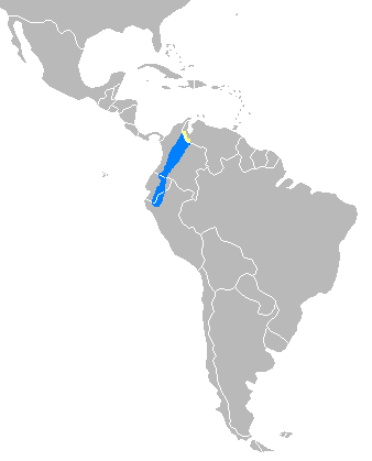 Distribution of Tapirus pinchaque